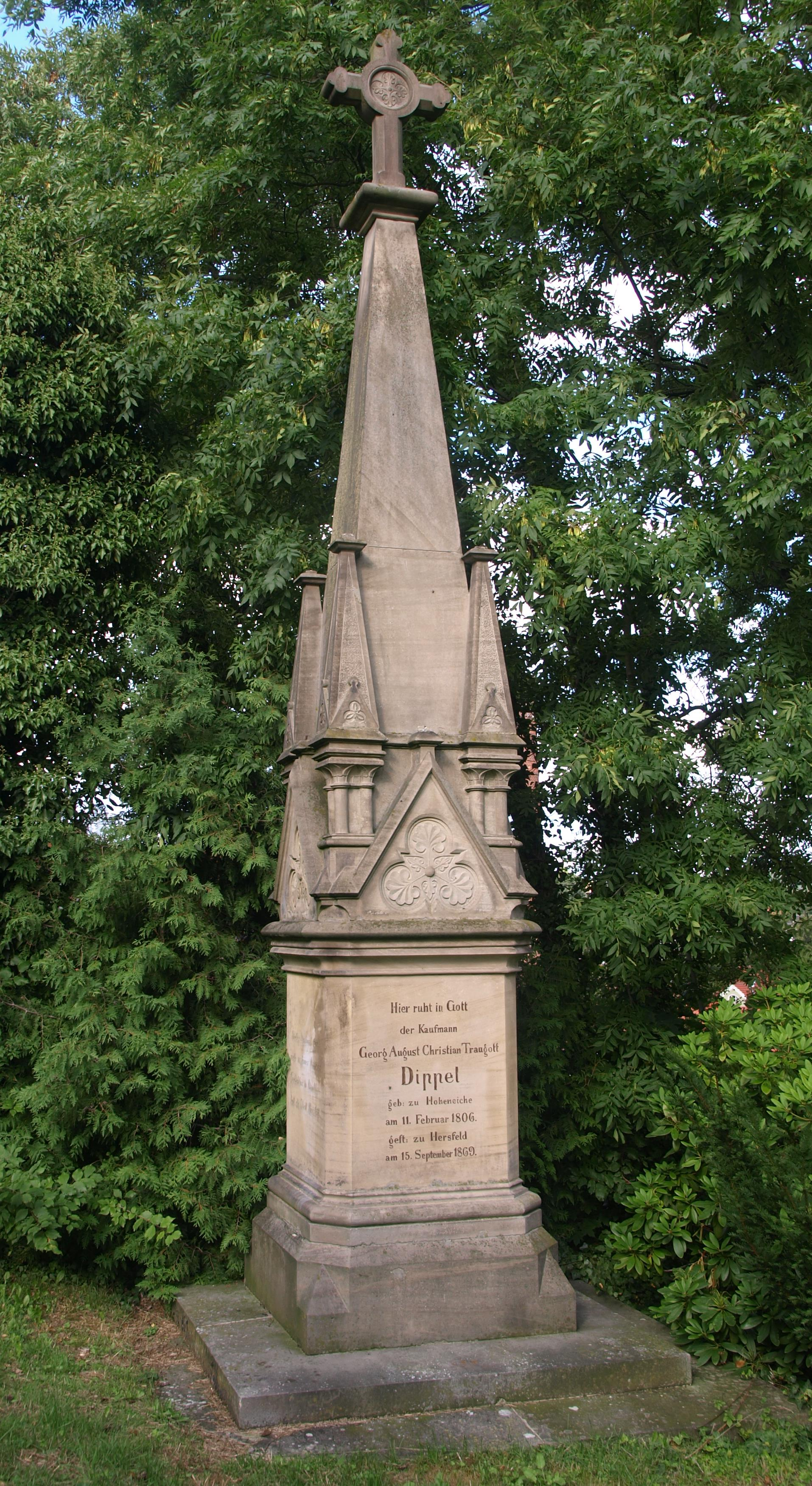 Gravestone of Georg August Christian Traugott Dippel in cemetery Bad Hersfed.